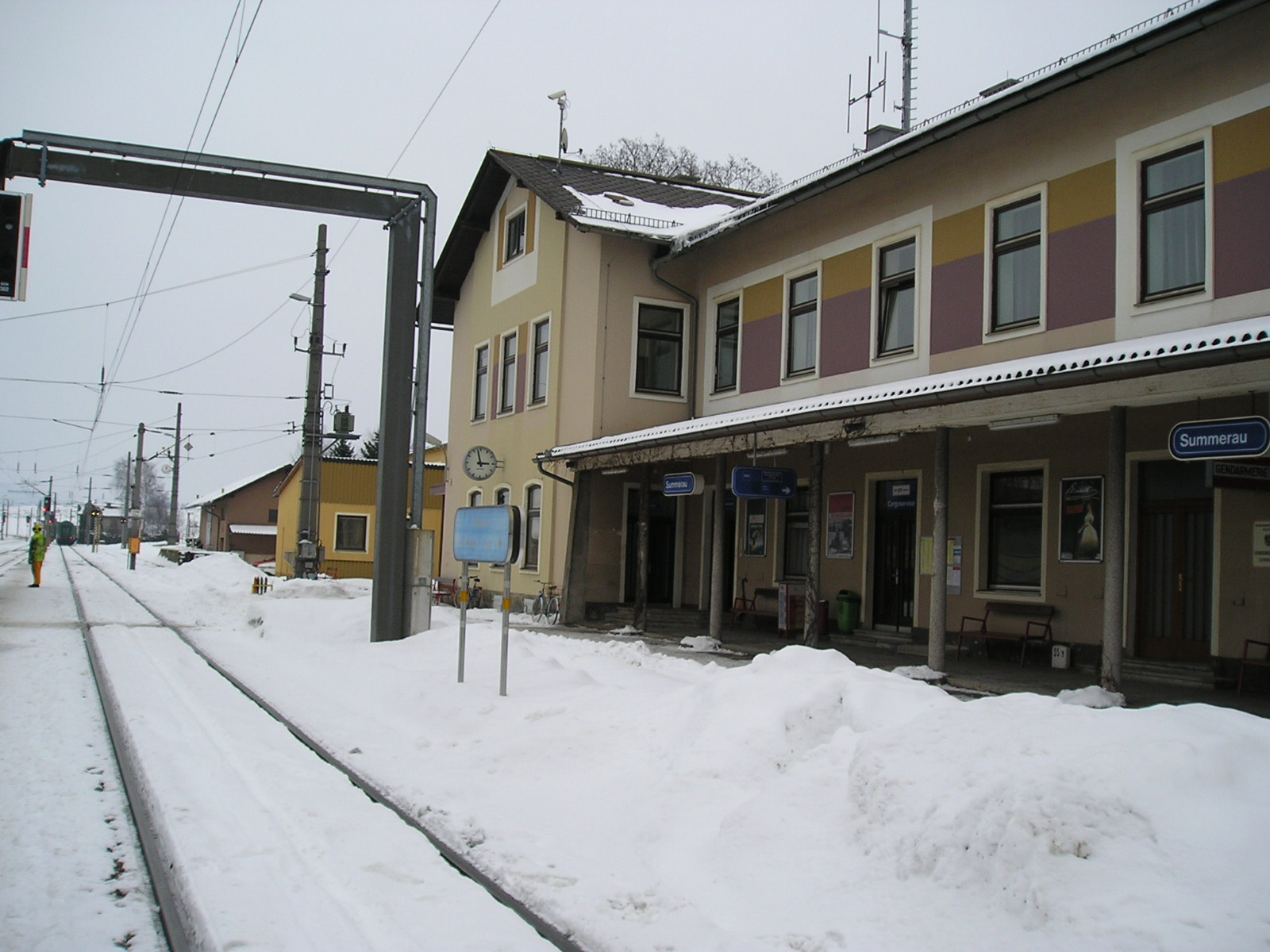 Station at Summerau, Austria. Czech rail border crossing